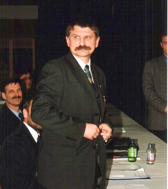 László Kövér is hungarian politic, 2000. My own picture. Creator by Rita Molnár. 2000